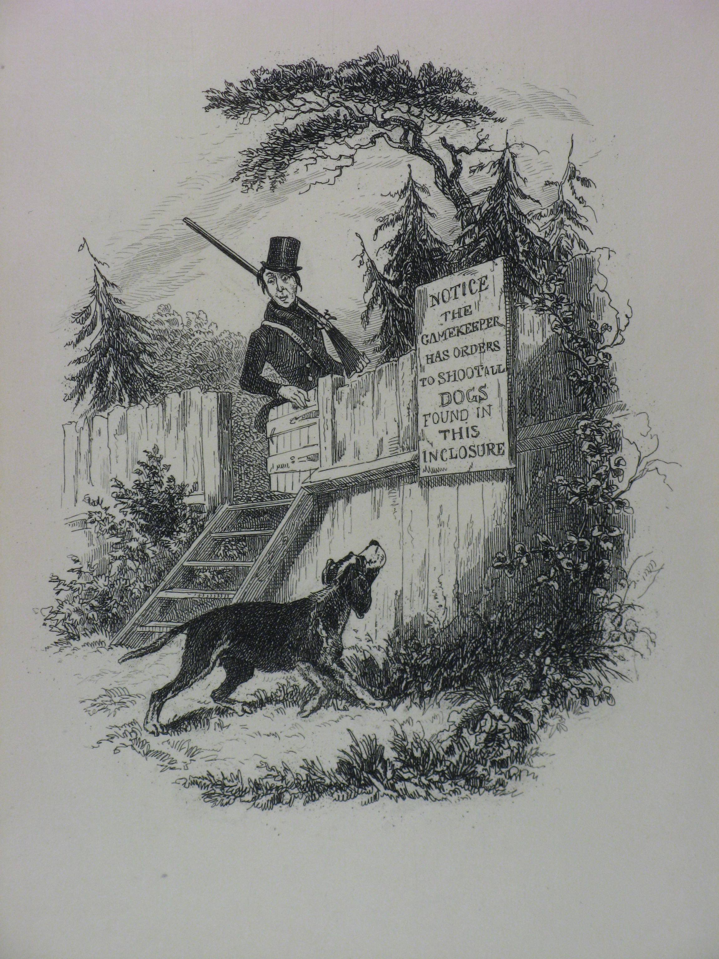 A photograph of an engraving in The Writings of Charles Dickens volume 1, The Pickwick Club, titled "The Sagacious Dog".